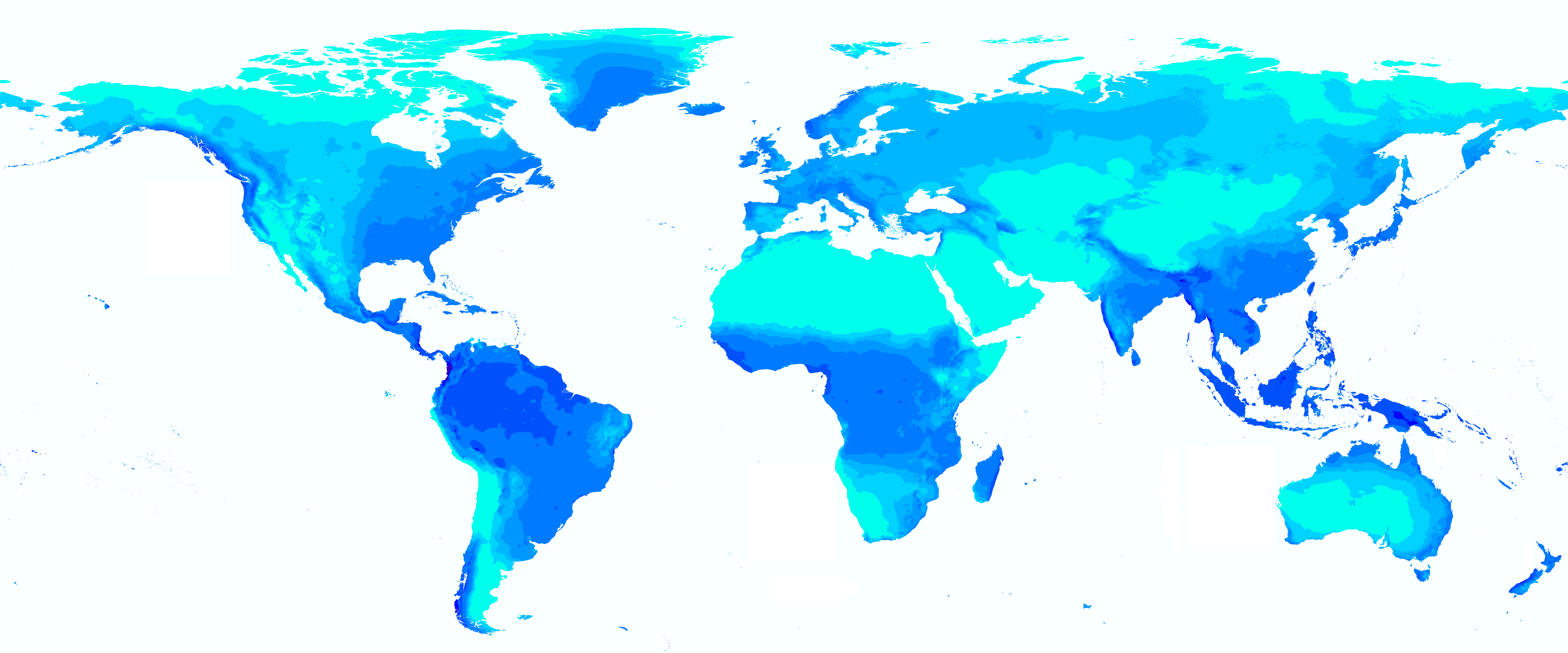 Annual precipitation throughout the world